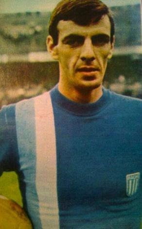 César Menotti while playing for Racing Club.